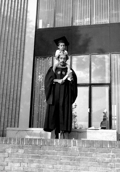 Mohammad Javad Tondguyan (1938–?), Iran Minister of Oil